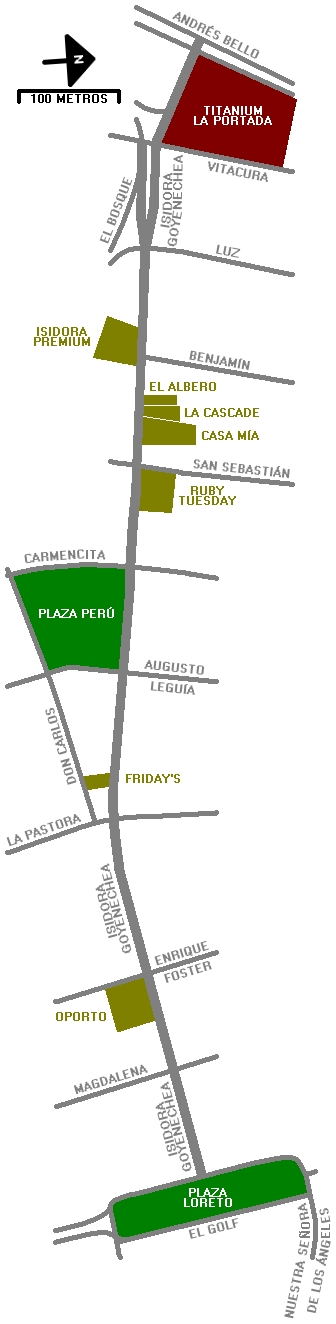 Map of Isidora Goyenechea Avenue, in Santiago, Chile.